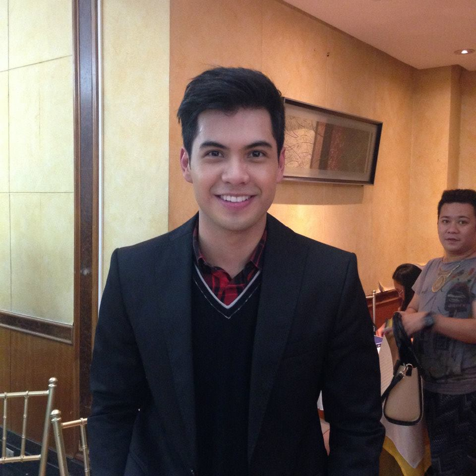 Ken Alfonso at the Cast of Kailan Ba Tama Ang Mali, January 2015